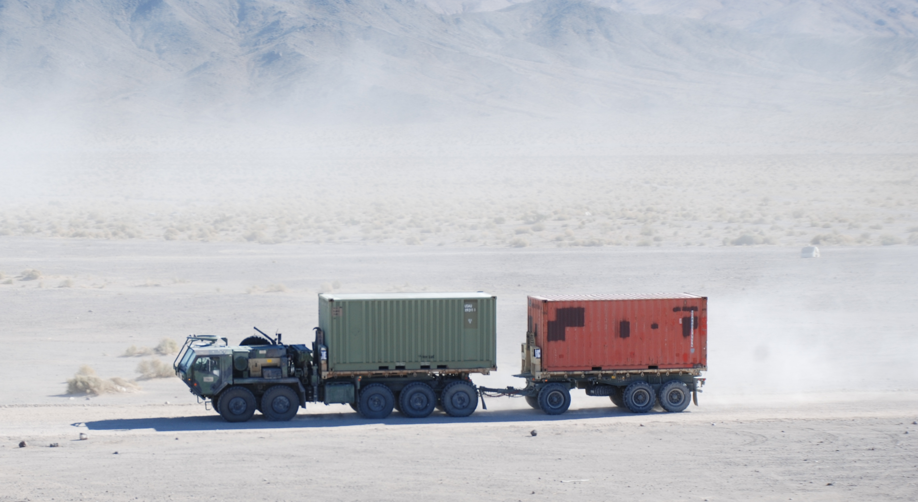 Heavy Expanded Mobility Tactical Truck (HEMTT) truck with a trailer at Fort Irwin National Training Center in California.